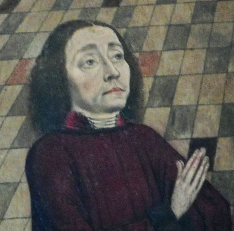 Johann Ferber (1430-1501), Mayor of Gdańsk, according to old painting in St. Mary's Church